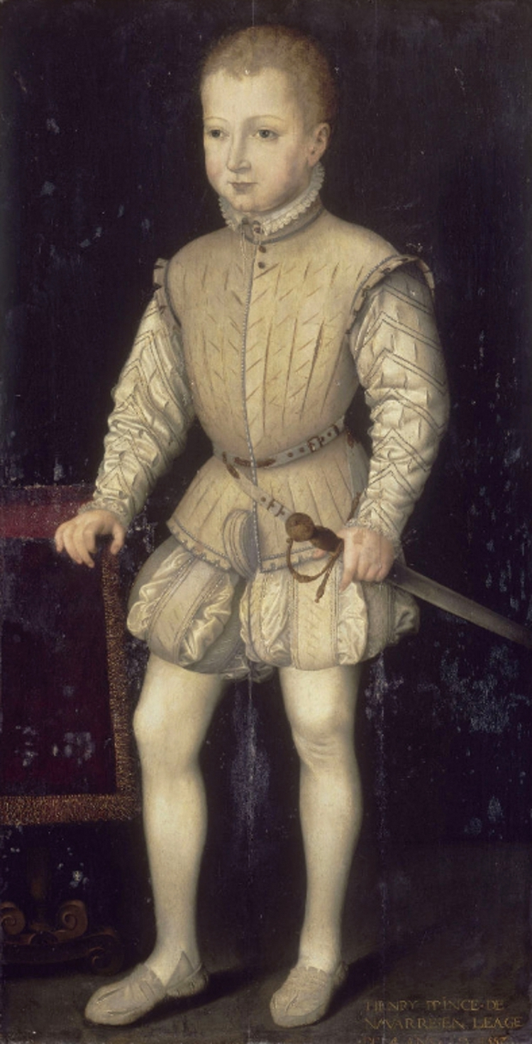 Henry IV as a child - aged four, during his stay in Paris with his parents, while he was still the Crown Prince of Navarre.